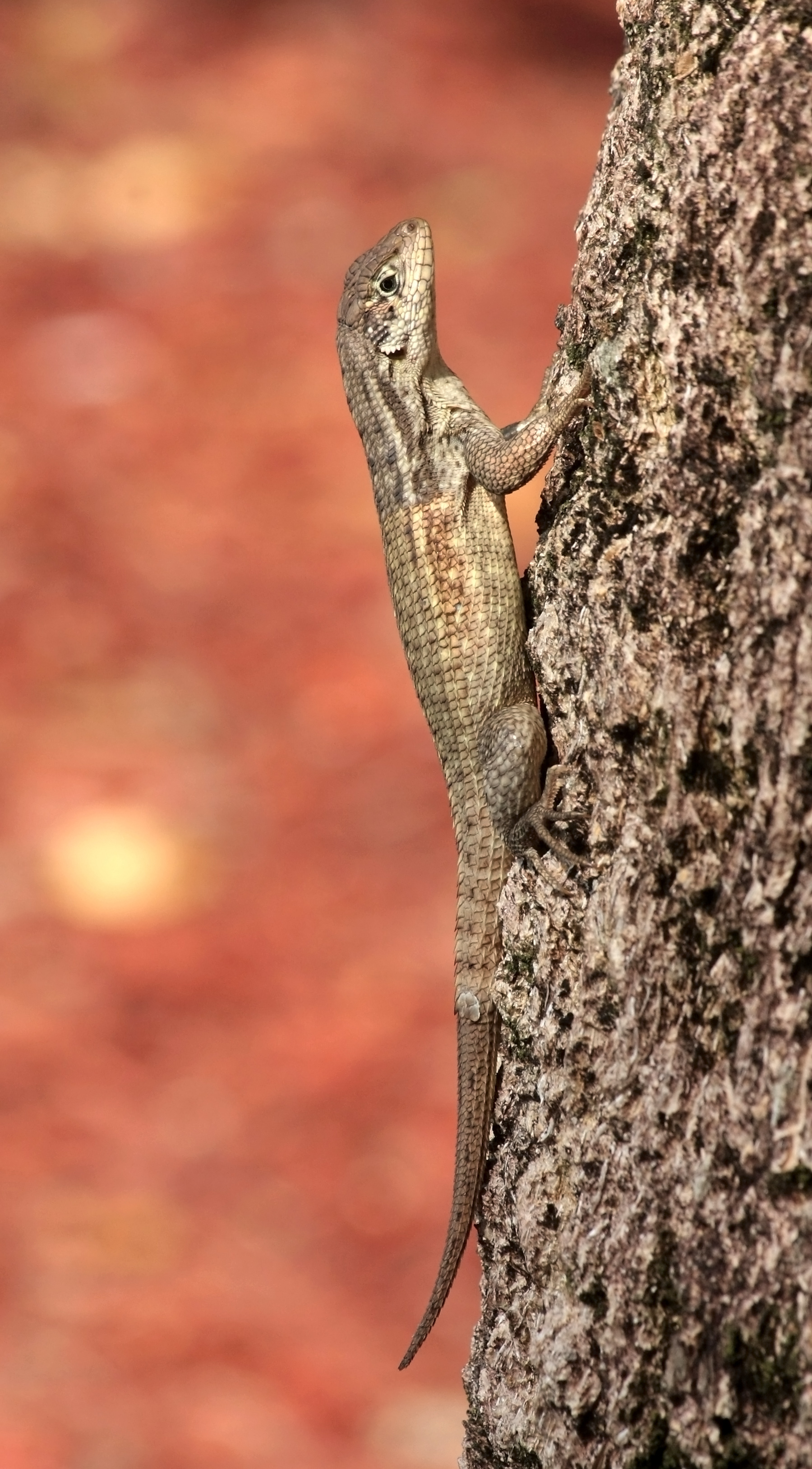 Northern curly-tail lizard hanging on a palm tree.